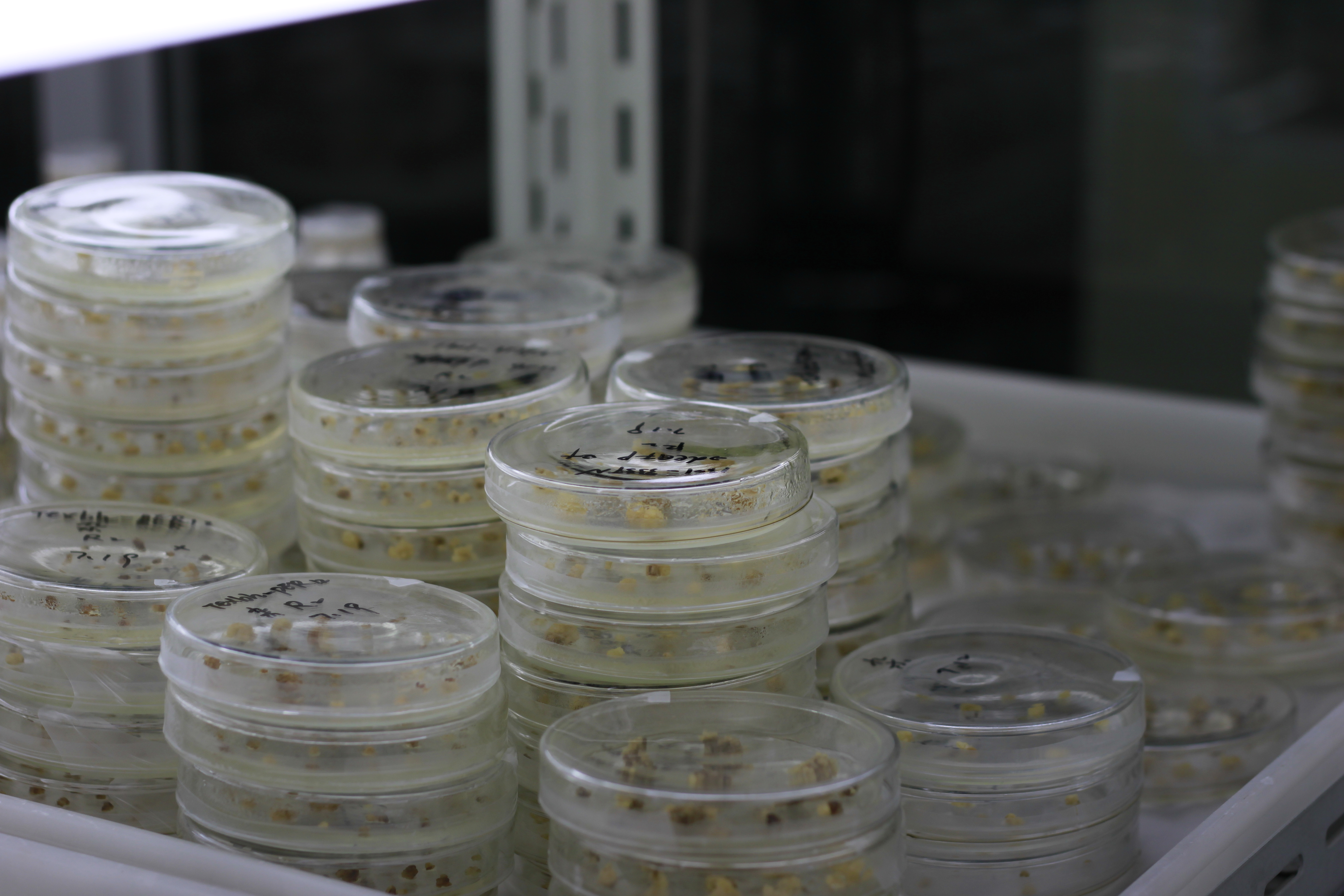 Callus tissue being cultured in laboratory